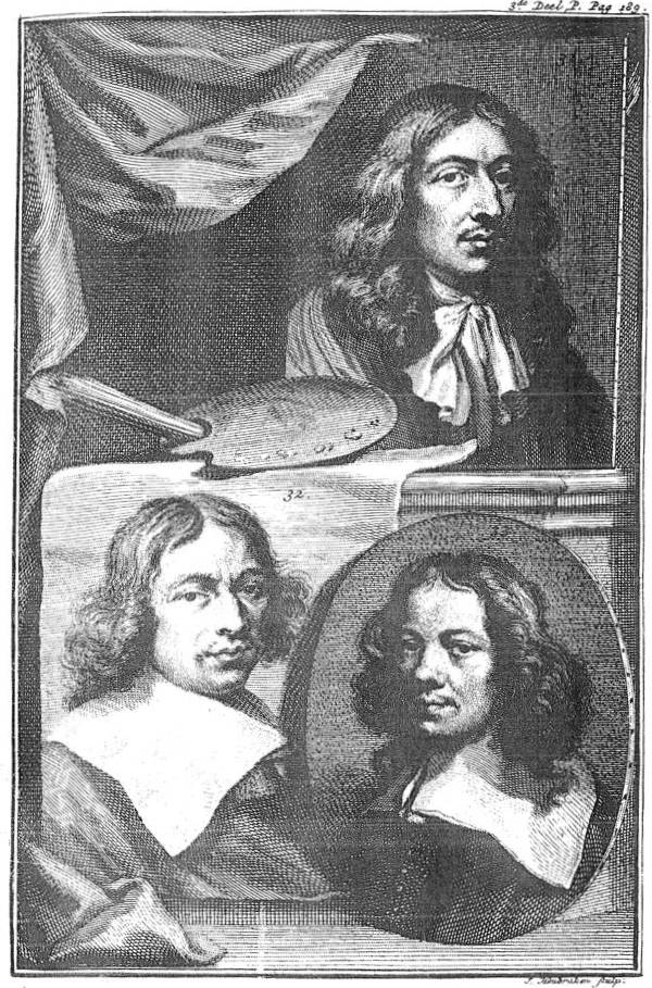 Plate P p189 31-Casparus Netscher 32-Job Berckheiden 33-Gerrit Berckheiden. Illustration from Part 3 of Arnold Houbraken's Schouburg from 1721